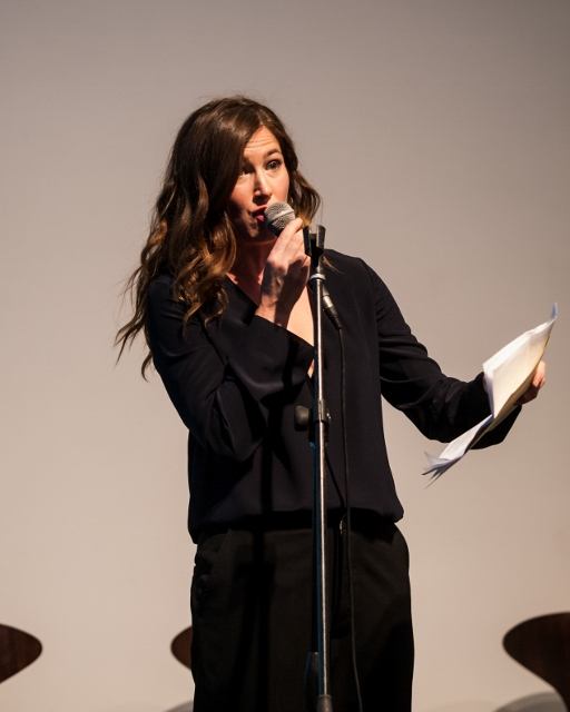 Kathryn Hahn at a benefit gala